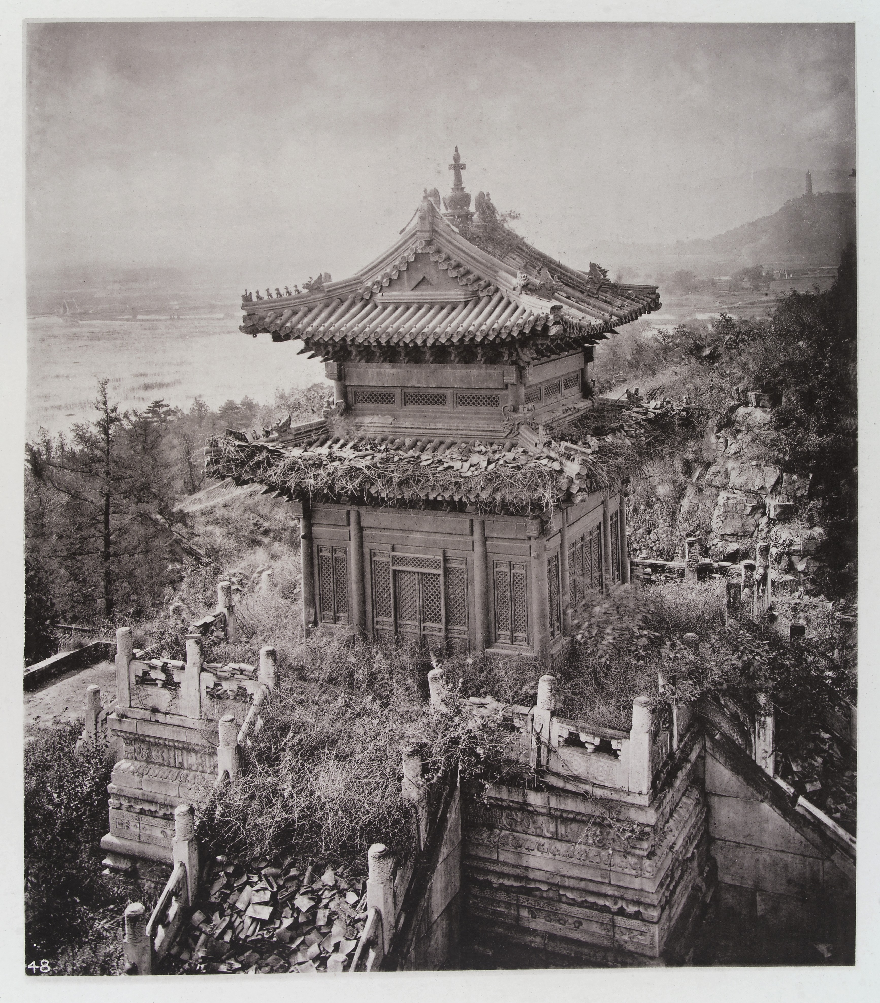 The Bronze Temple, Yuen-Ming-Yuen (Old Imperial Summer Palace), at Wan-Show-Shan, Peking, Pechili Province, China General Collections Keywords: Palace; Architecture as Topic; Royal Residence; John Thomson; Peking; China; Architecture; Temple